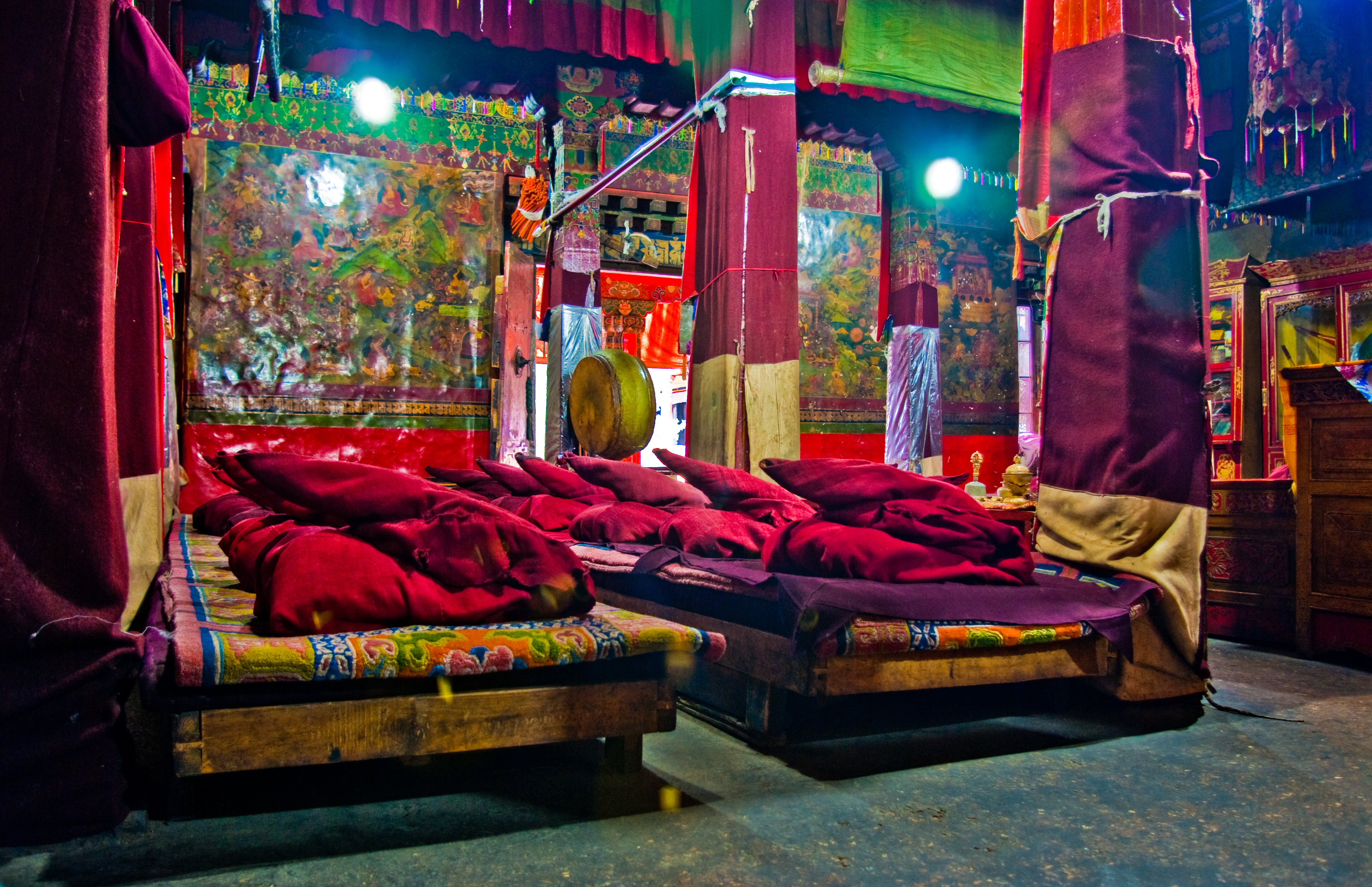 meru sarpa monastery (Lhasa)